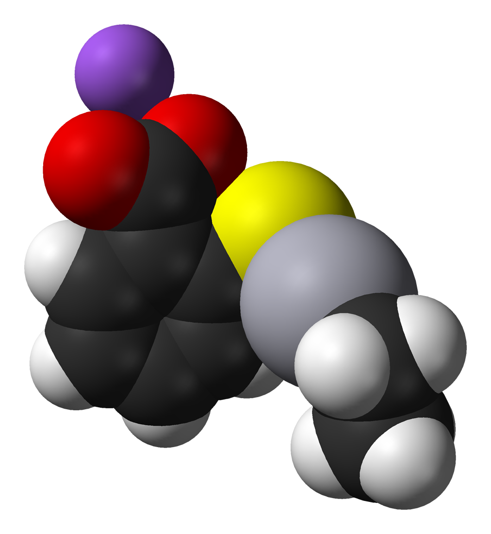 Space-filling model of the thiomersal molecule. Single crystal X-ray diffraction data from Molecular Structures of Thimerosal (Merthiolate) and Other Arylthiolate Mercury Alkyl Compounds J. G. Melnick, K. Yurkerwich, D. Buccella, W. Sattler, G. Parkin Inorg. Chem. (2008) 47, 6421–6426 Image generated in Accelrys DS Visualizer.